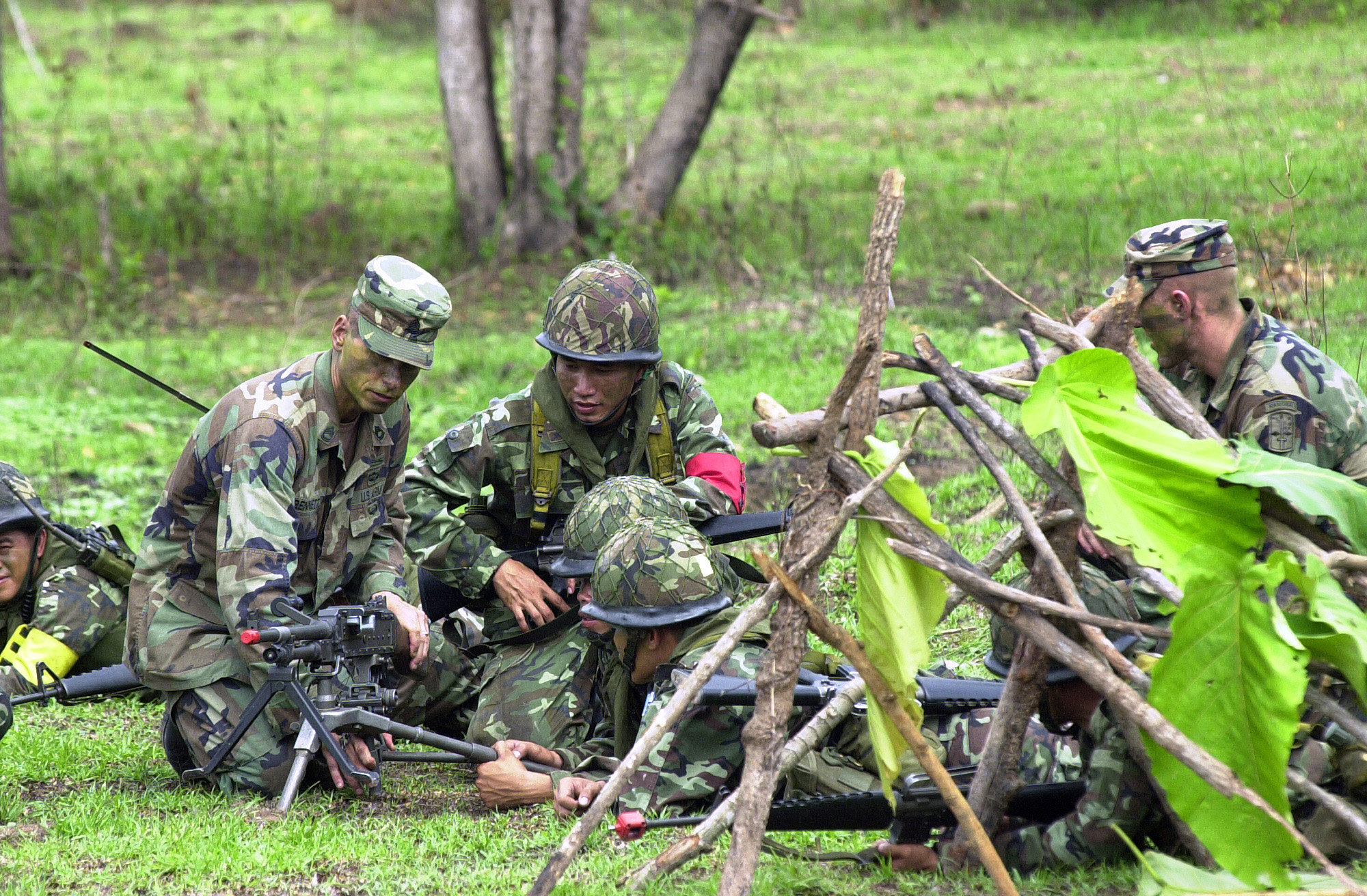 Soldiers from Charlie Company 2-1 Infantry, Fort Wainwright, Alaska, instruct the Thai Military Forces during a platoon battle drill attack as a part of COBRA GOLD 2001 exercises. COBRA GOLD '01 is regularly scheduled, joint-combined exercise designed to ensure regional peace and strengthen the ability of the royal Thai Armed Forces to defend Thailand or respond to regional contingencies. This year's exercise, the 20th in the series, will focus on peace enforcement operations.